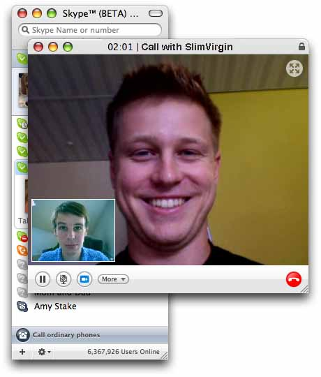 Screenshot to illustrate use of videocalls